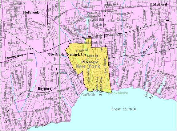 U.S. Census 2000 reference map for Patchogue .